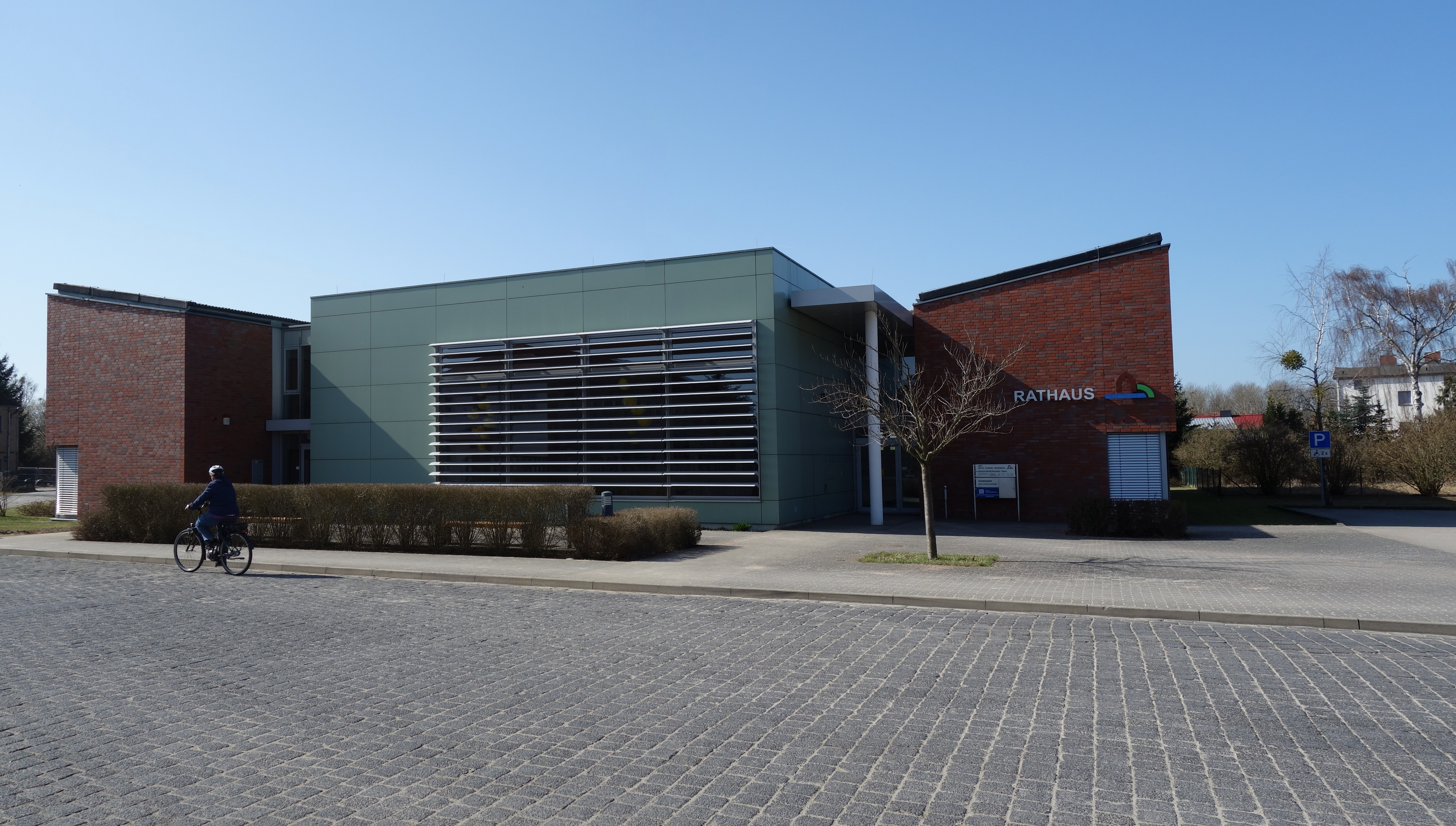 North-eastern view of administration office of Amt Britz-chorin-Oderberg in Britz municipality, Barnim district, Brandenburg state, Germany